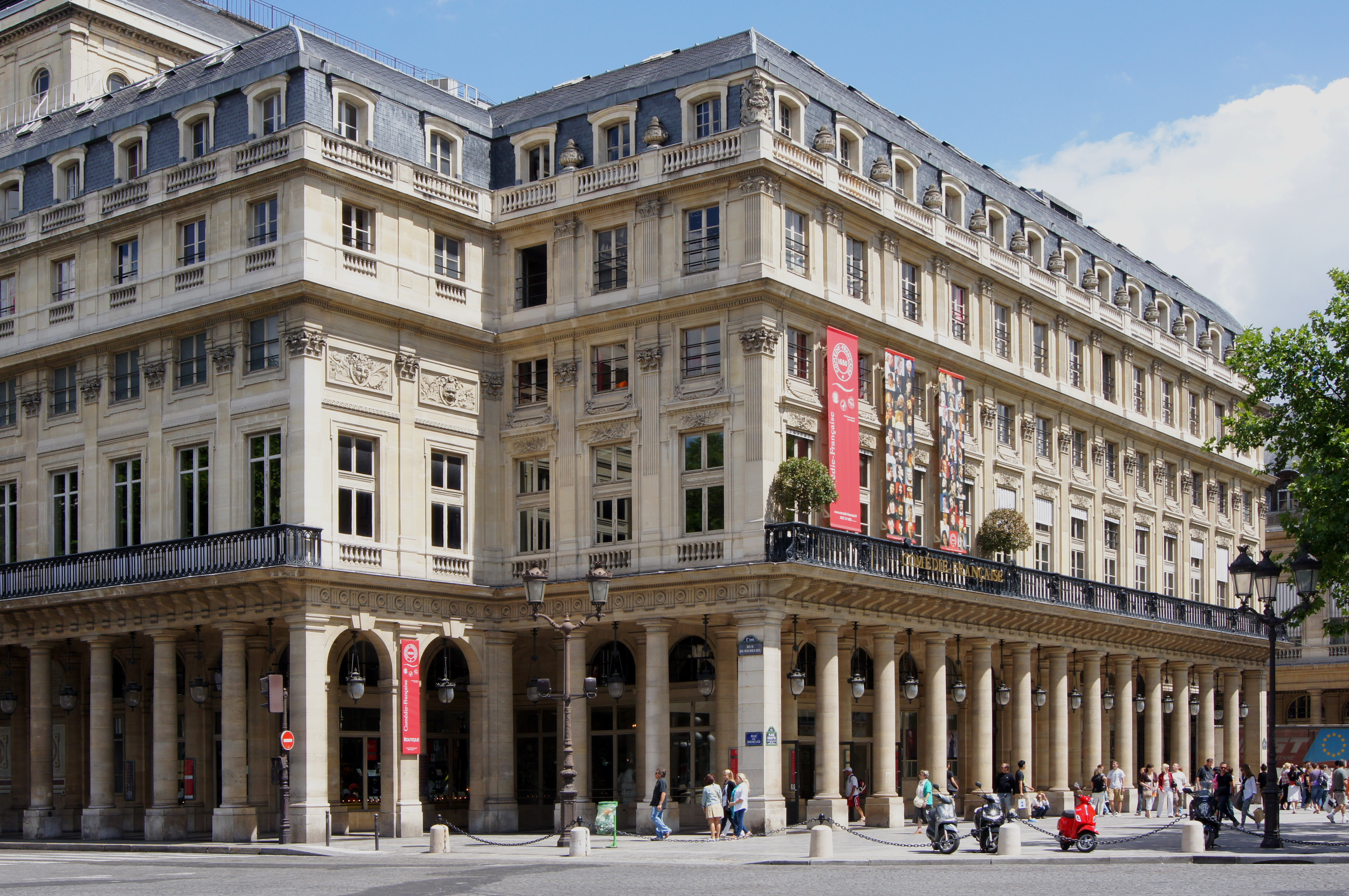 The southwest corner of the Salle Richelieu, the theatre of the Comédie-Française in Paris. The Place Colette is on the right, the Place André-Malraux on the left.